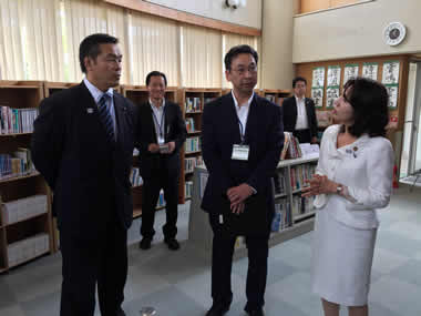 Hiroshi Hase, Minister of Education, Culture, Sports, Science and Technology, and Mayuko Toyota, Parliamentary Secretary for Education, Culture, Sports, Science and Technology, inspected the temporary buildings of Katsurao Village Katsurao Elementary School and Katsurao Village Katsurao Junior High School at former Miharu Town Kanameta Junior High School in Miharu Town, Tamura District, Fukushima Prefecture on July 14, 2016.